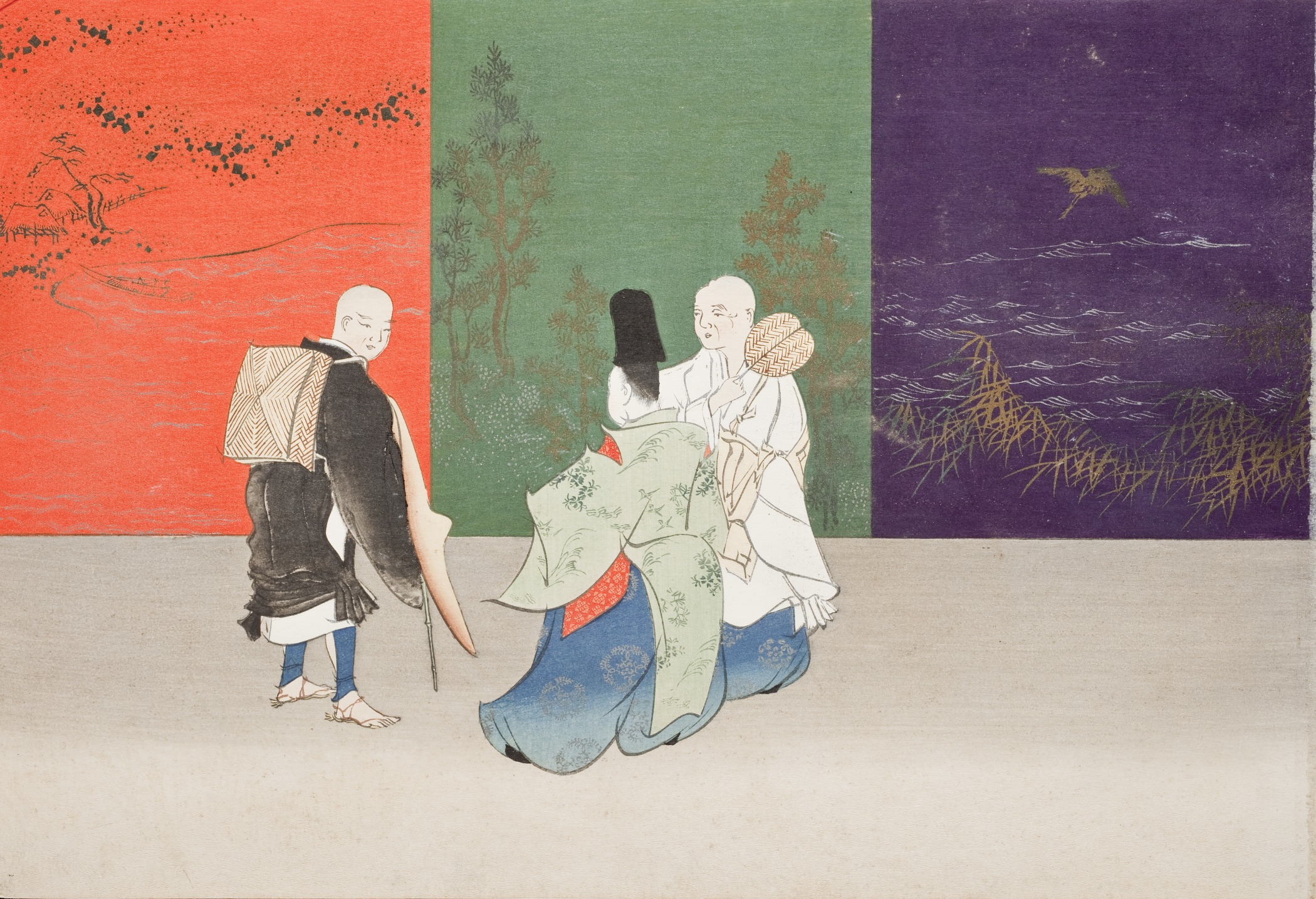 1900 Books Album of (thirty) color woodblock prints Gift of Laurie and Bill Benenson (M.2010.24.1-.30) Japanese Art